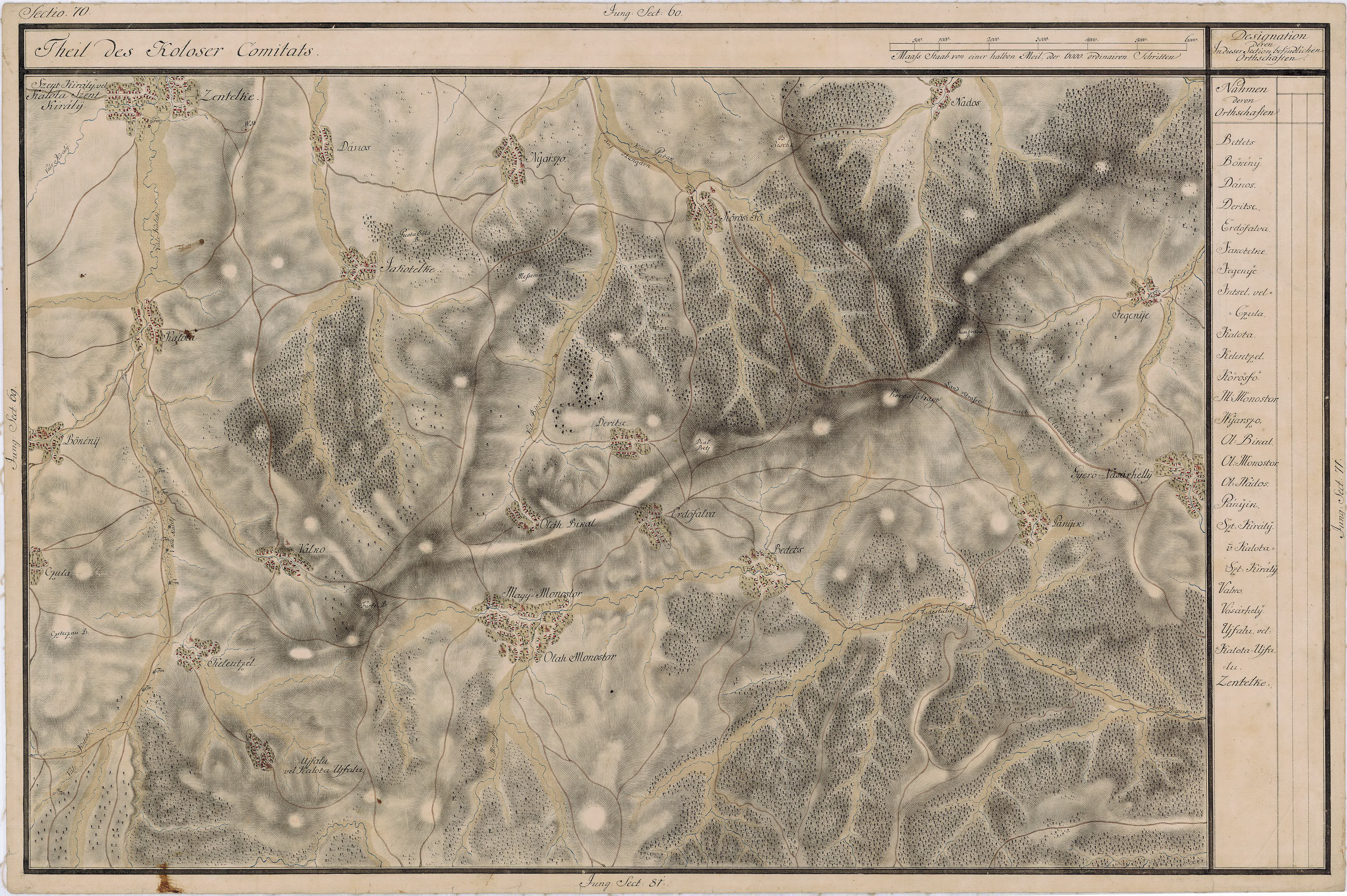 Grand Duchy of Transylvania, 1769-1773. Josephinische Landaufnahme pg.070